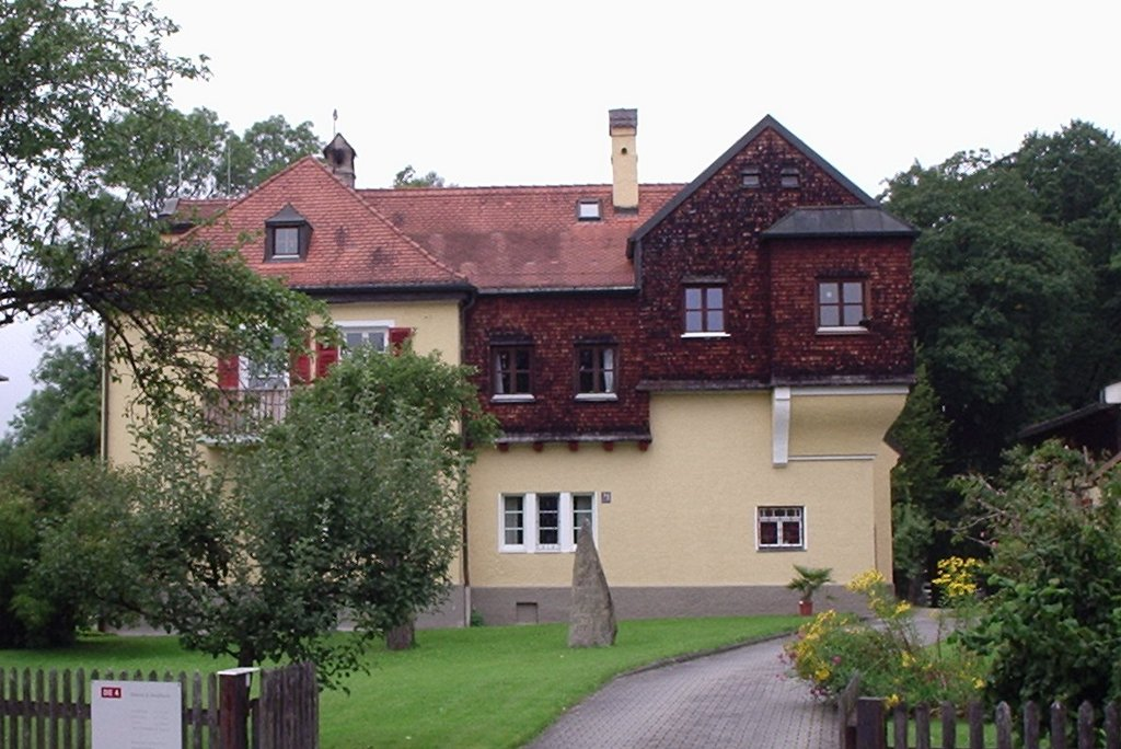 Becker-Gundahl-Villa. Listed building at Bleibtreustraße 34, Solln, Munich, Germany. Built in 1908 by Carl Jank (the core of the building is older). Former home of the painter Carl Johann Becker-Gundahl.